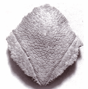 Photograph of the intergular of a Chelid turtle, this is the holotype of the species Chelodina insculpta.